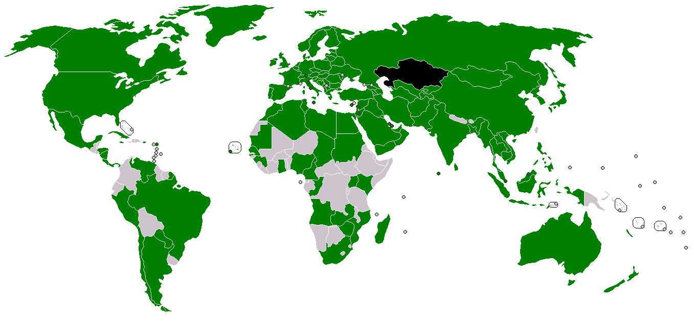 Dark green - established diplomatic relations